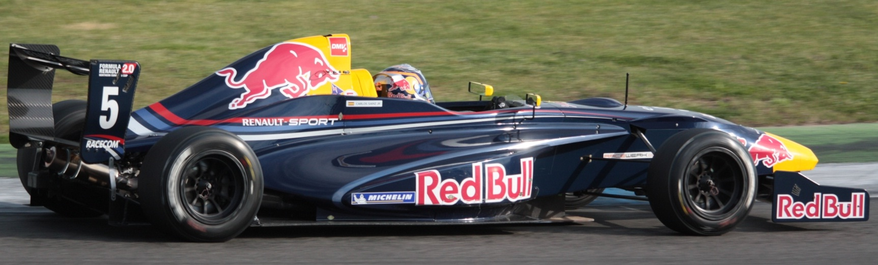 Sainz driving during a 2011 Formula Renault 2.0 NEC race.